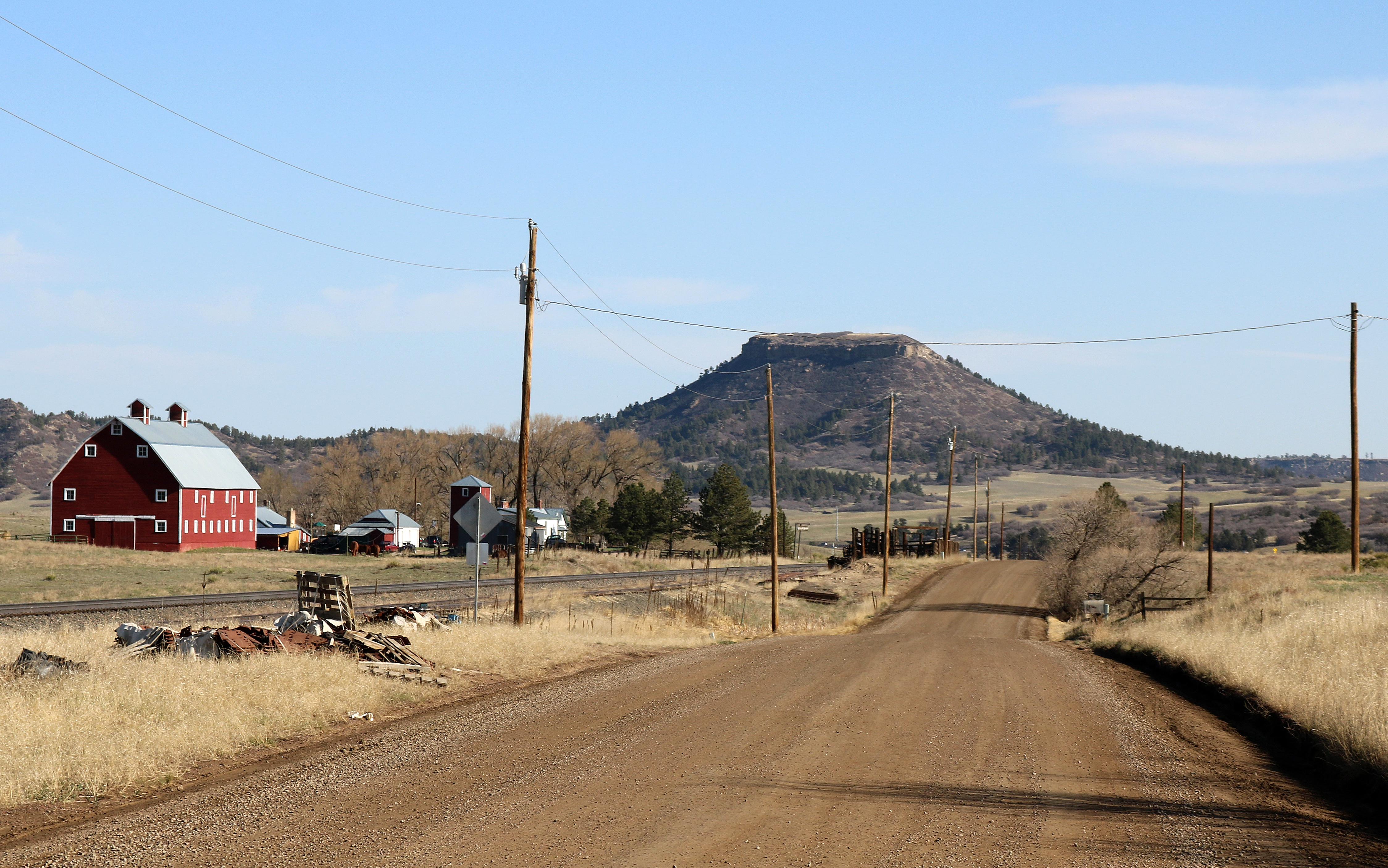 A view of Greenland, Colorado. The view is to the north along East Noe Road. Larkspur Butte, elevation 7,516 feet (2,291 meters), lies in the distance. The Greenland Ranch is on the left, as is the BNSF rail line.